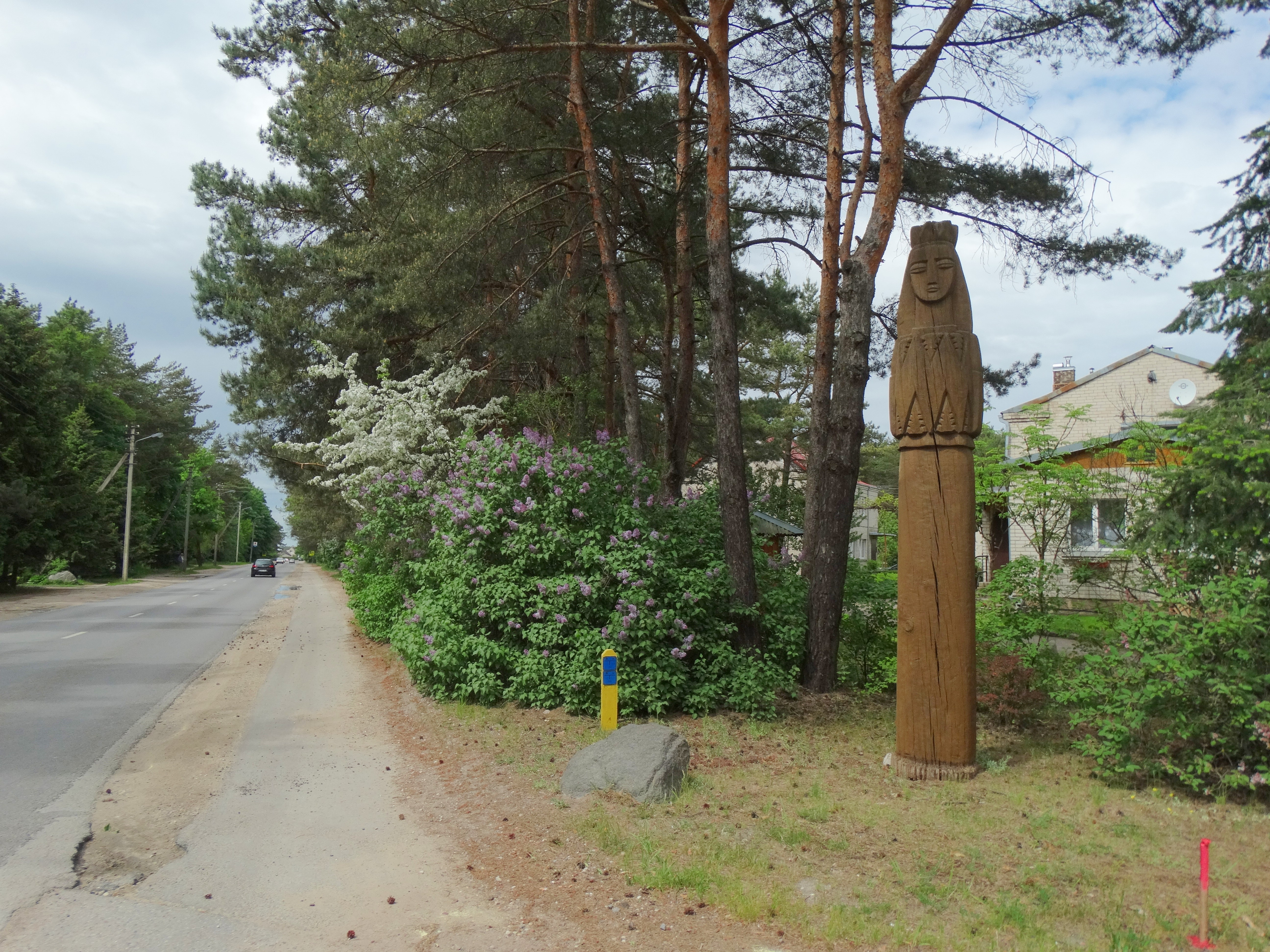 Romainiai, Kaunas, Lithuania